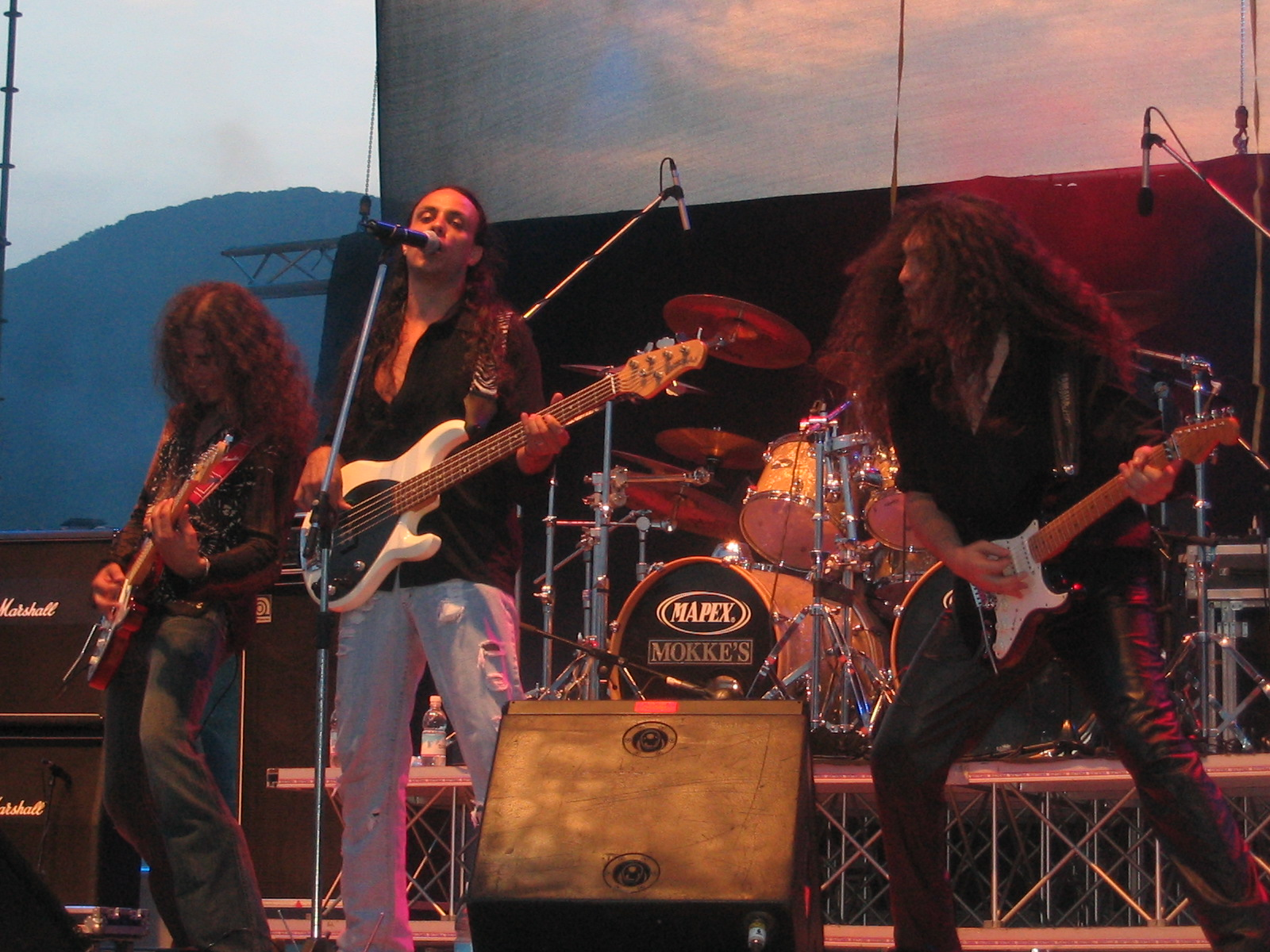 The Italian band Labyrinth live at the Evolution Festival 2006.